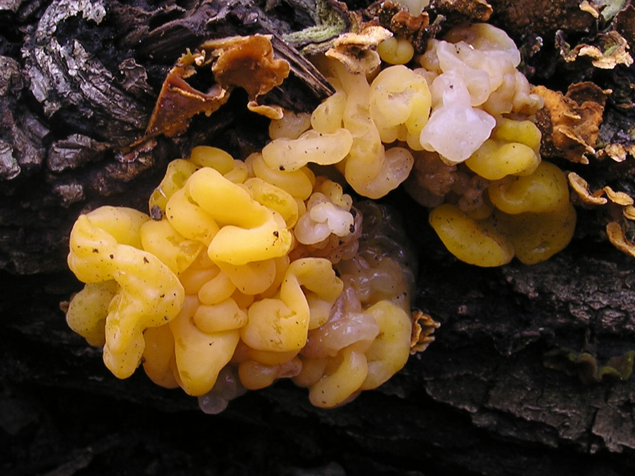 Tremella mesenterica in a French wood.